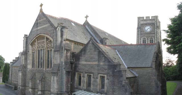 All Saints Church, Ammanford. This church sits up high on a hill at the end of Church St, overlooking the town.